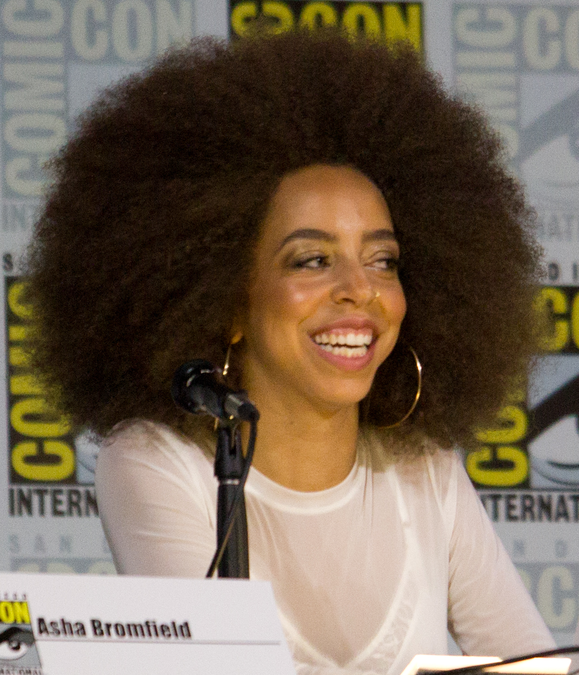 Asha Bromfield, Hayley Law, and Ashleigh Murray speaking at the 2017 San Diego Comic Con International, for Riverdale, at the San Diego Convention Center in San Diego, California.